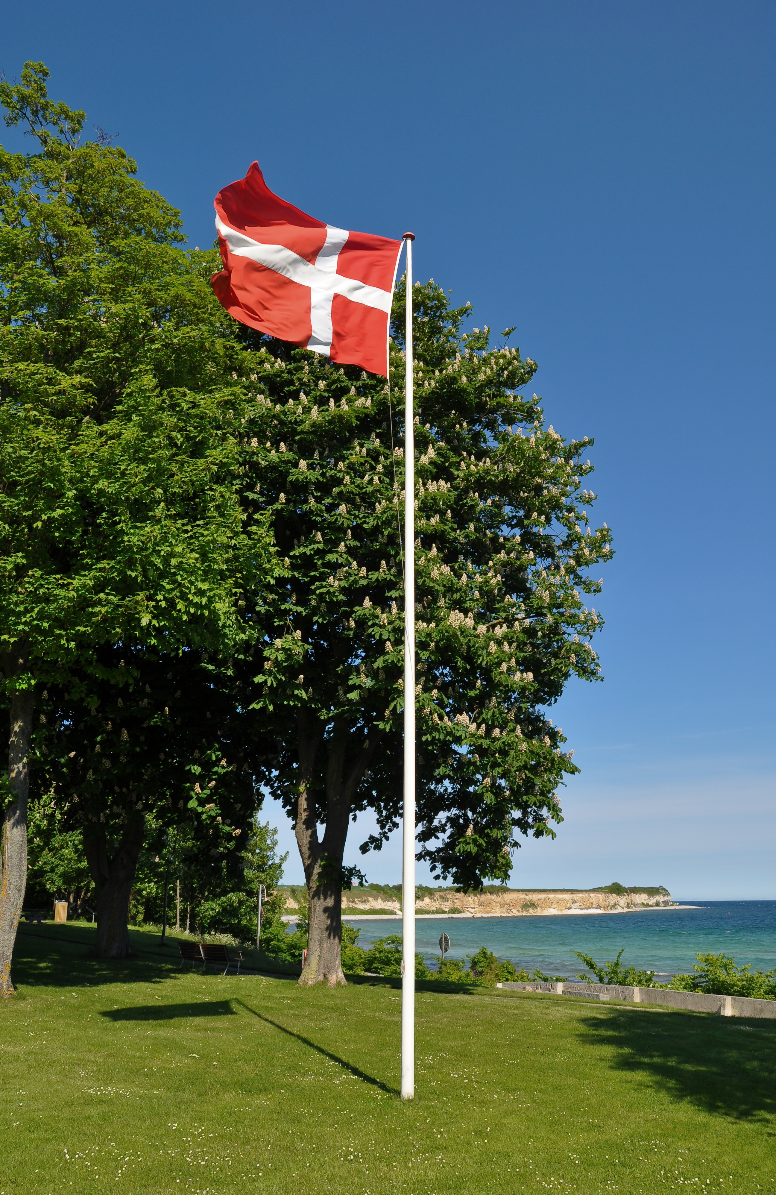 A flagpole with the Dannebrog near Rødvig Beach on Stevns, Denmark. The Cliff of Stevns (Stevns Klint) is seen in the background.